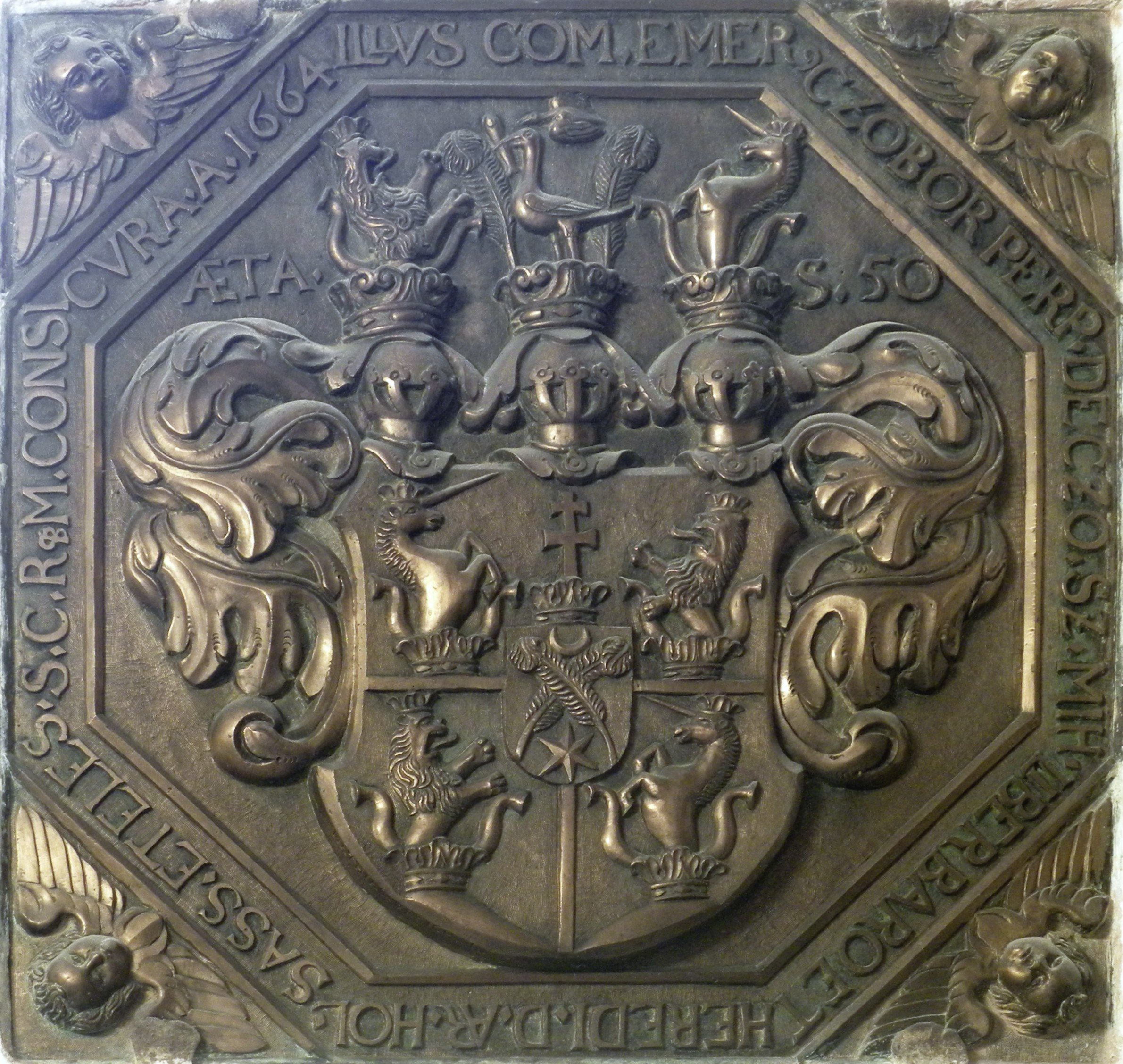 Coat of arms of Imre Czobor, Franciscan Church, Bratislava. For coat of arms of Czobor see also Siebmacher: Ungarn, p. 120, Tab. 94.